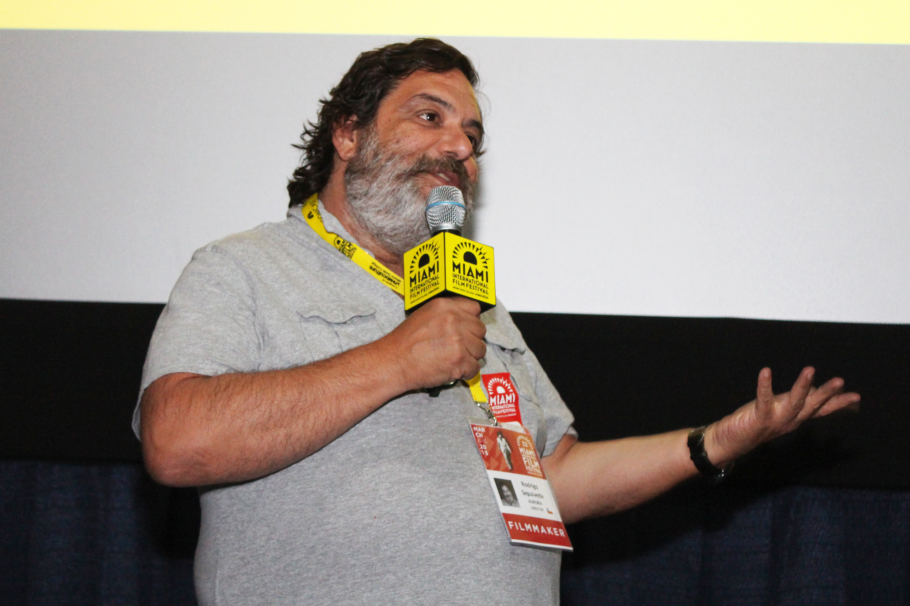 Director Rodrigo Sepulveda at the Miami International Film Festival showing of "Aurora"